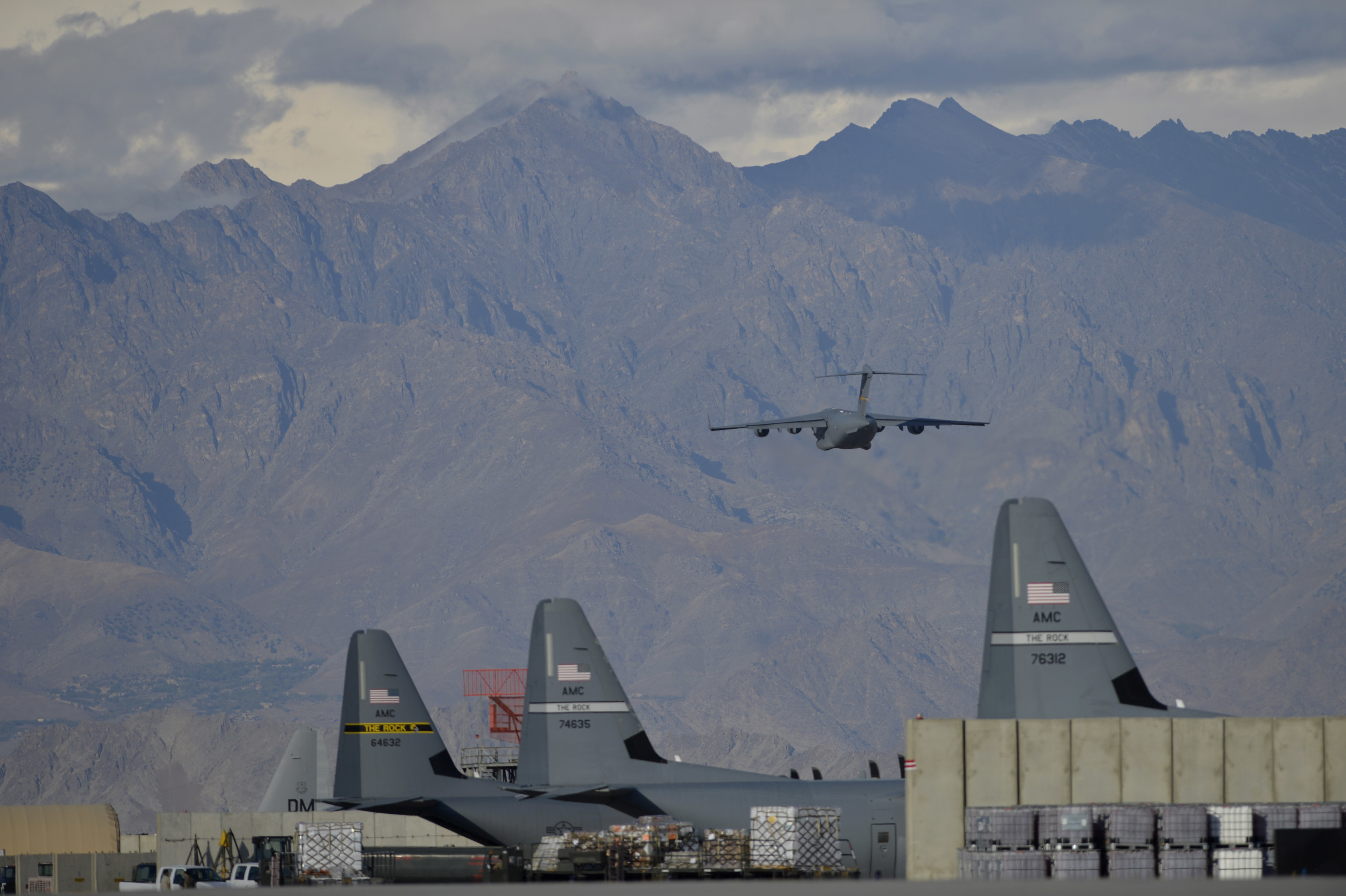 A C-17 Globemaster III takes off into the mountains at Bagram Airfield, Afghanistan, Oct. 23, 2014. Since 2006, the annual airfield traffic count has increased from 143,705 to 333,610 as support for Operation Enduring Freedom nears its end. (U.S. Air Force photo by Staff Sgt. Evelyn Chavez/Released)